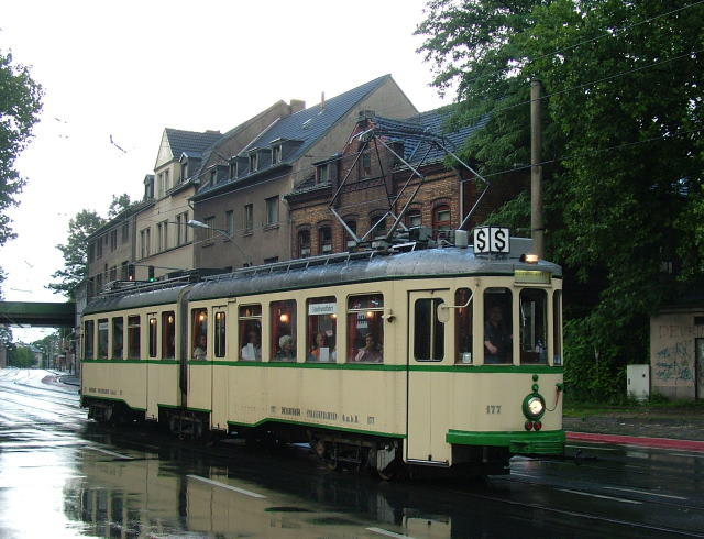 historic tramcar 177 of Duisburg from 1926 (first articulated jacobs bogie tram ever built, knwon as "Harkortwagen" after the builder) in Meiderich, 2005-08-07